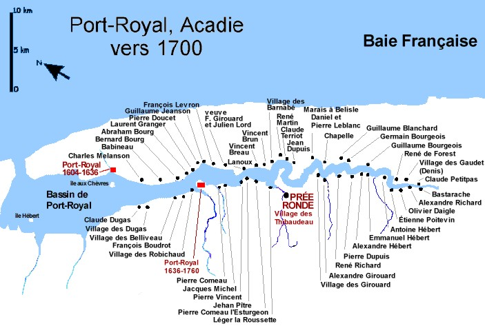 Map of the valley of du Dauphin river